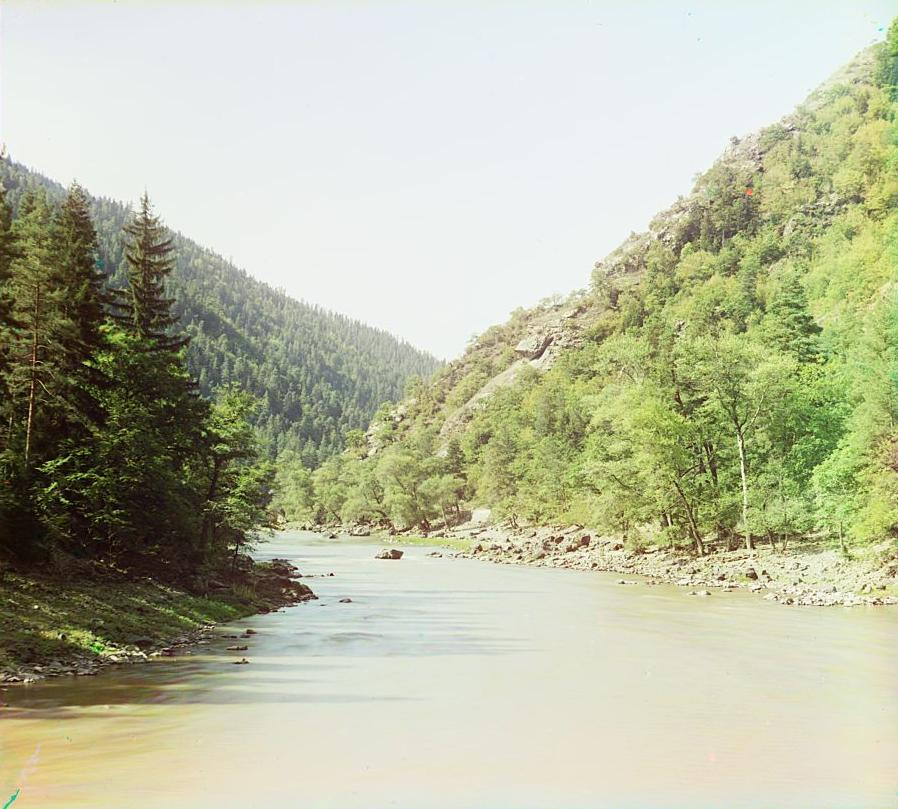 View of the Bzyb River Valley from the fortress (made between 1905 and 1915)